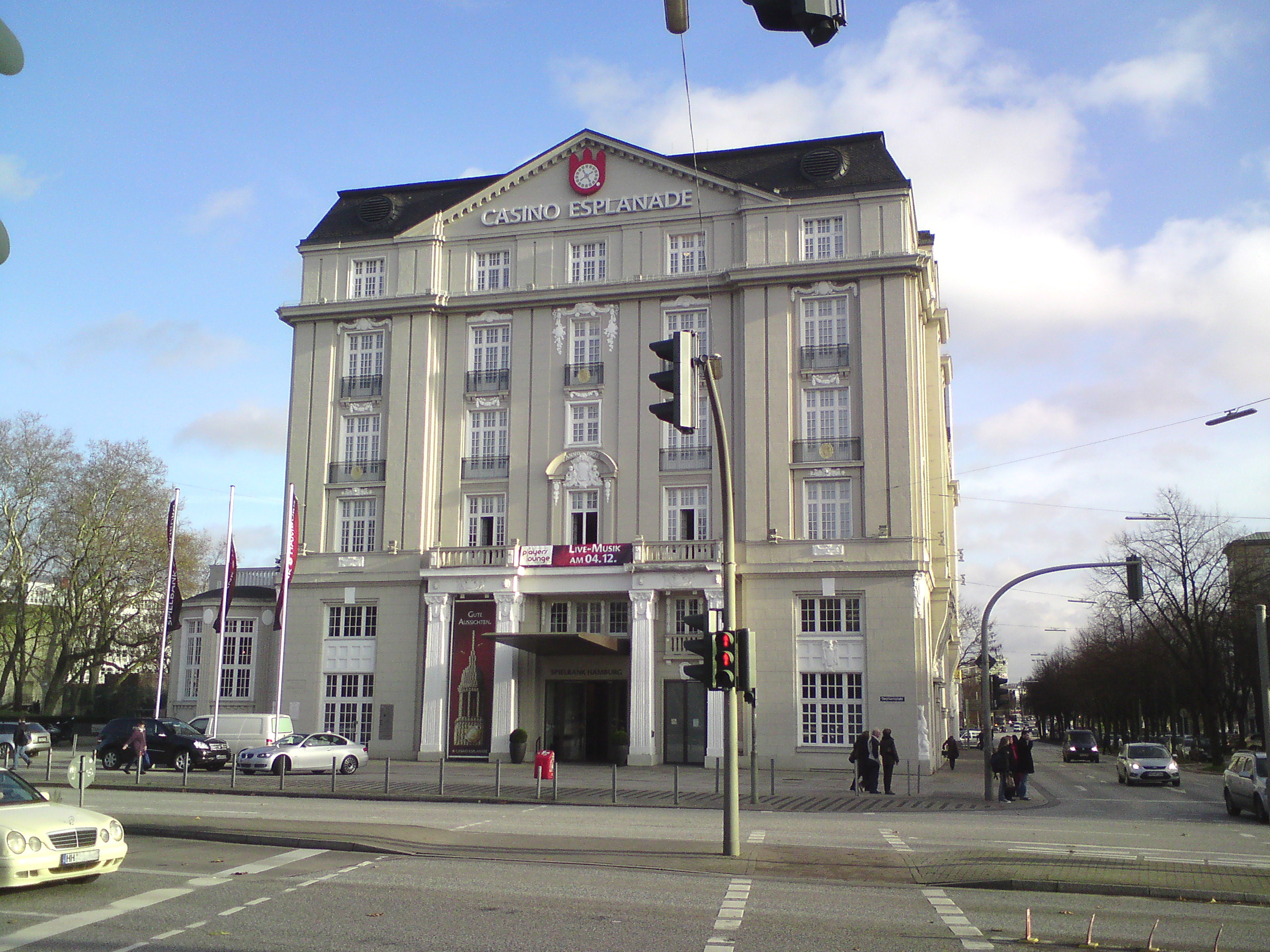 Casino Esplanade in Hamburg-Neustadt, Germany